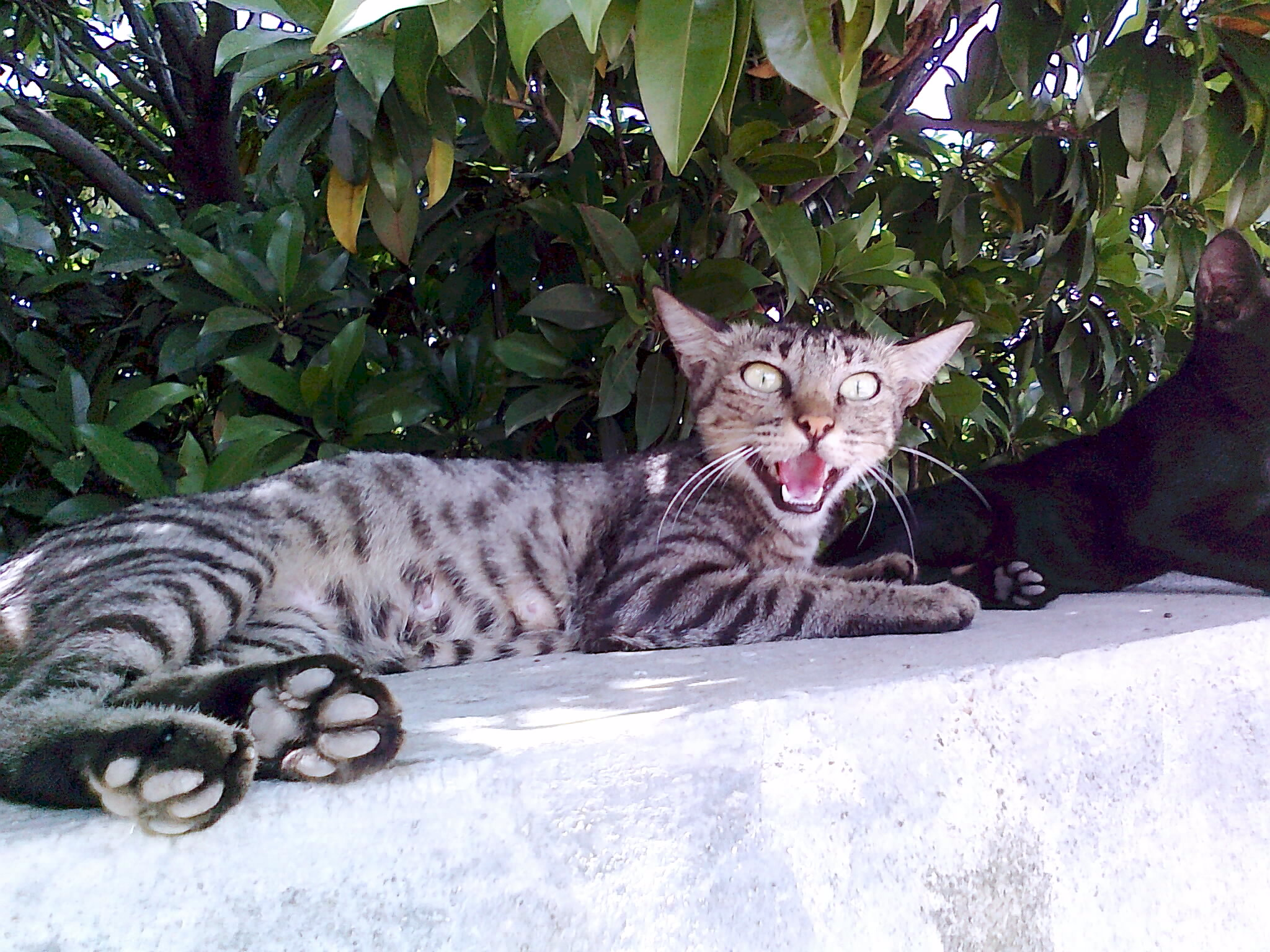 Aggressive mother cat protecting kittens at Chinawal village of Maharashtra, India